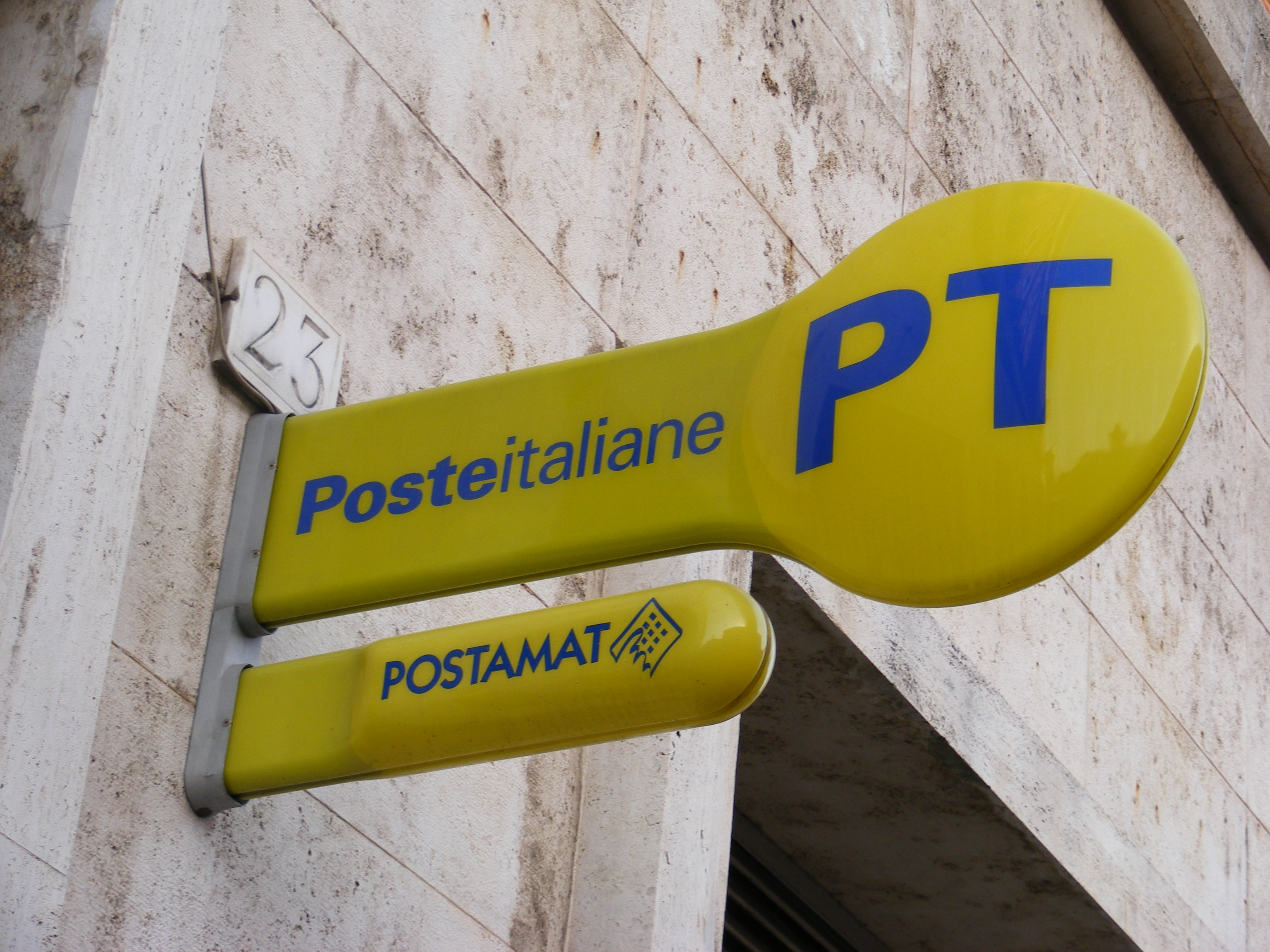 Poste Italiane - sign